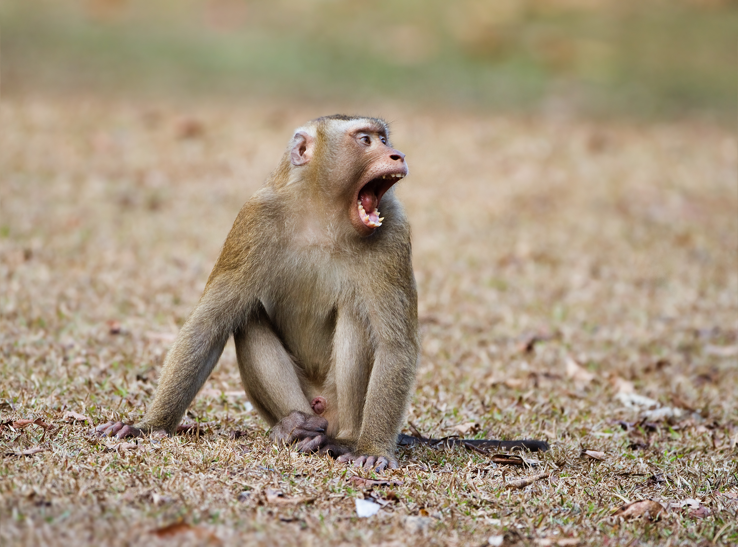 Northern Pig-tailed Macaque (Macaca leonina), Khao Yai National Park, Pak Chong, Thailand